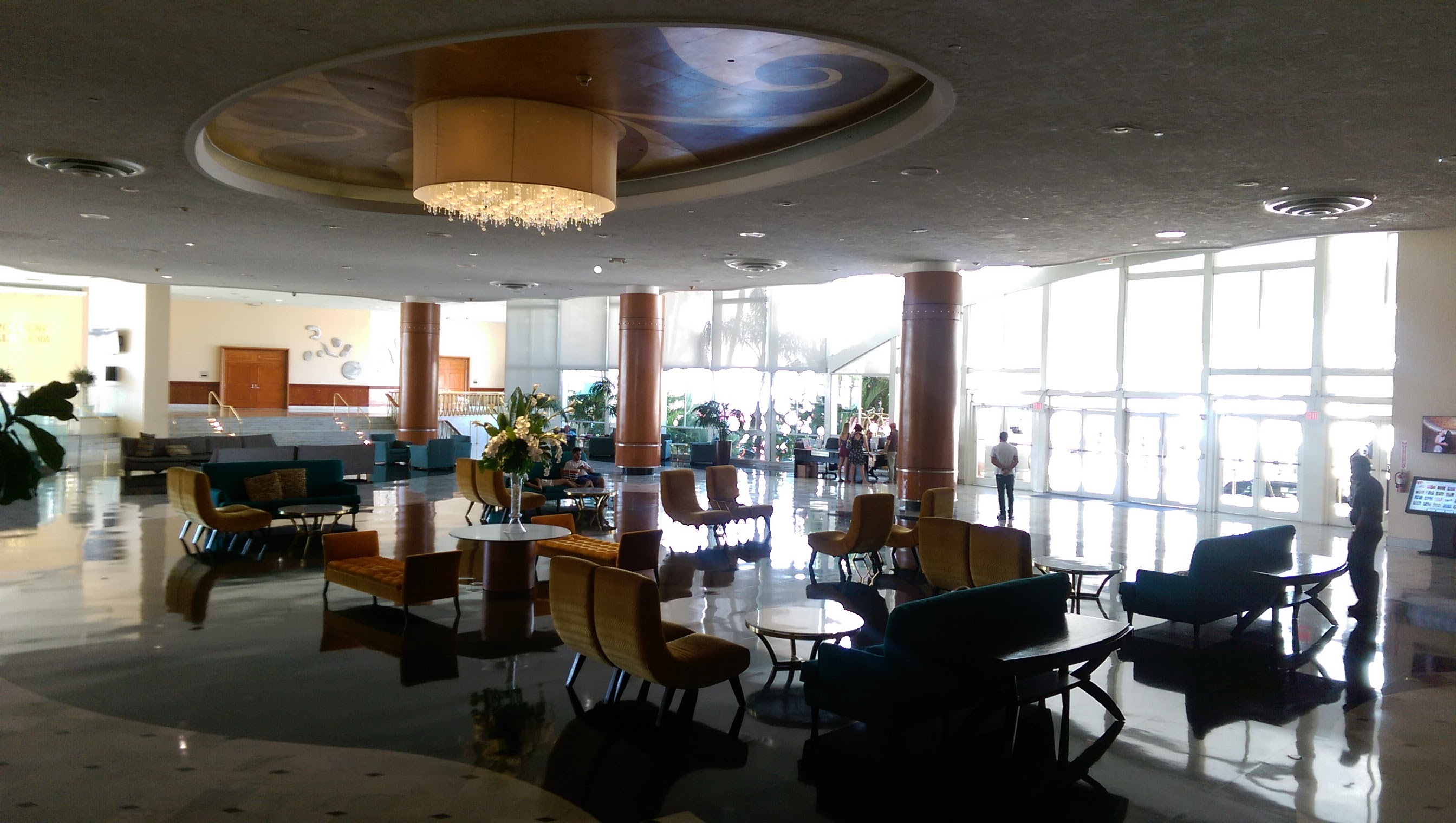 Deauville Beach Resort Entrance